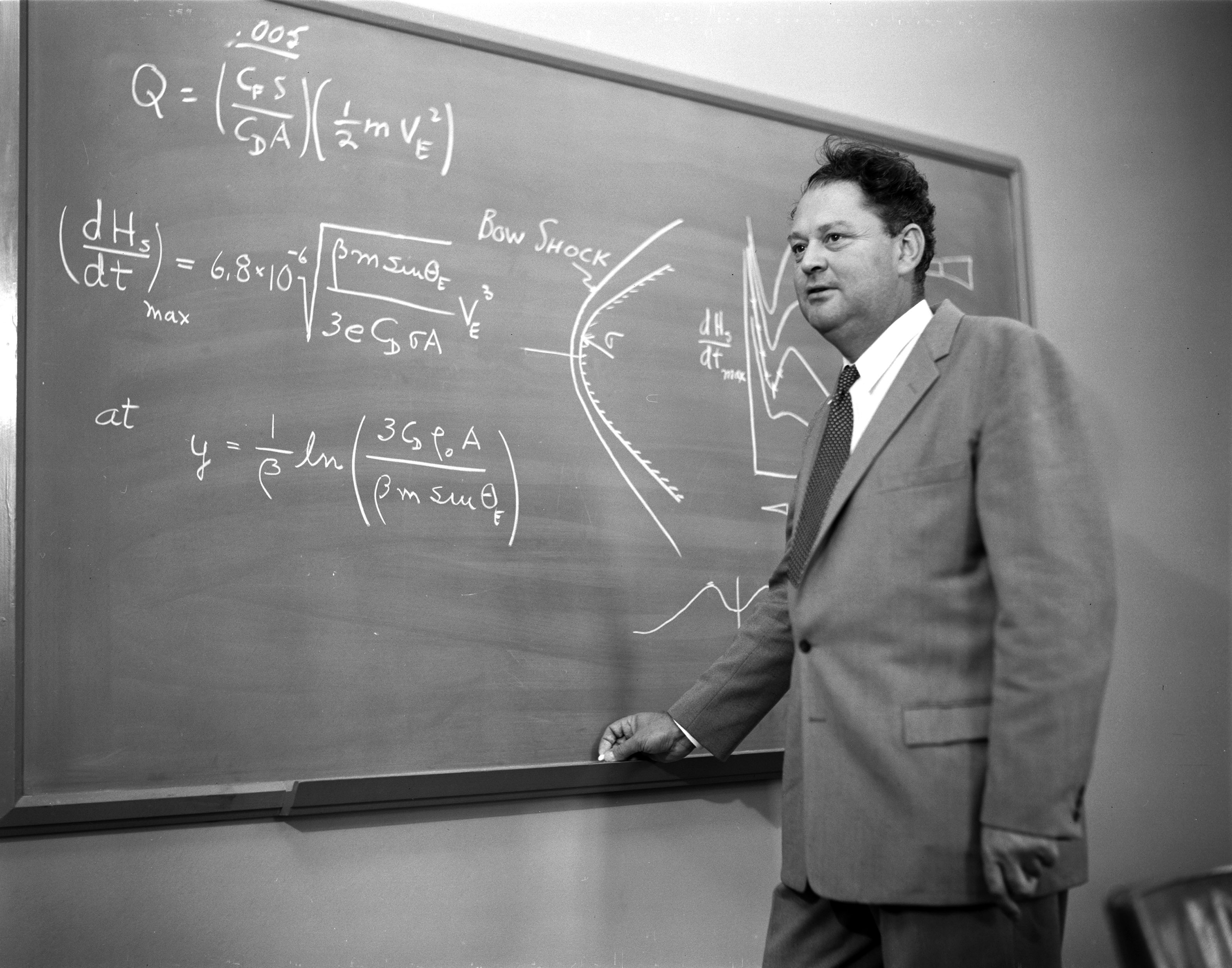 H. Julian Allen is best known for his "Blunt Body Theory" of aerodynamics, a design technique for alleviating the severe re-entry heating problem which was then delaying the development of ballistic missiles. His findings revolutionized the fundamental design of ballistic missile re-entry shapes. Subsequently, applied research led to applications of the "blunt" shape to ballistic missiles and spacecraft which were intended to re-enter the Earth's atmosphere. This application led to the design of ablative heat shields that protected the Mercury, Gemini and Apollo astronauts as their space capsules re-entered the Earth's atmosphere. "Harvey" Allen as he was called by most, was not only a brilliant scientist and aeronautical engineer but was also admired for his kindness, thoughtfulness and sense of humor. Among his many other accomplishments, Harvey Allen served as Center Director of the NASA Ames Research Center from 1965 to 1969. He died of a heart attack on January 29, 1977 at the age of 66.